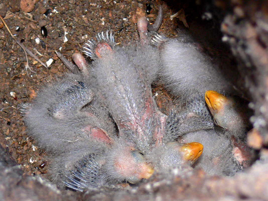 The young of the Eastern Rosella, Platycercus eximius. The nest was on the ground inside a hollow tree-stump.